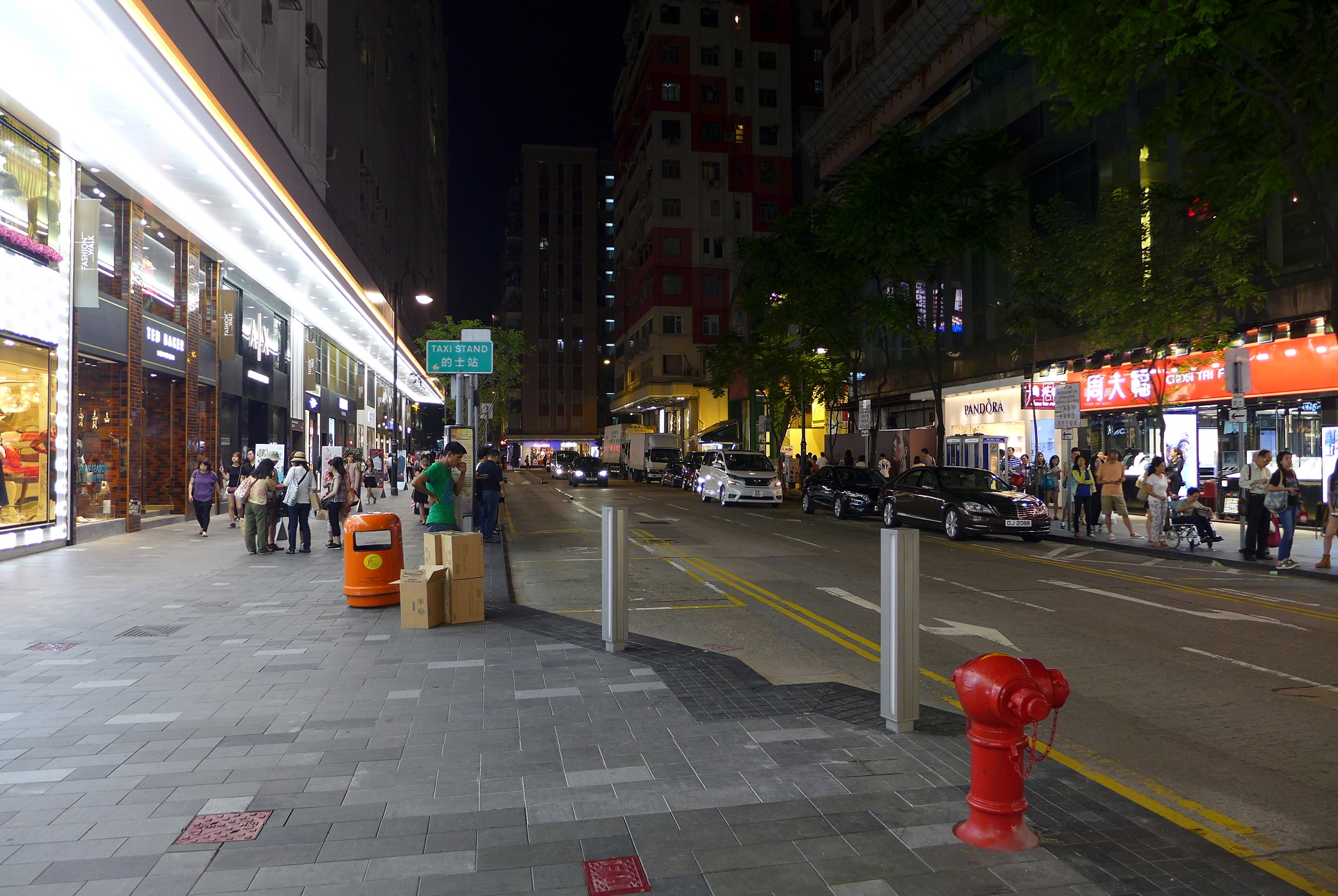 Paterson Street Night View